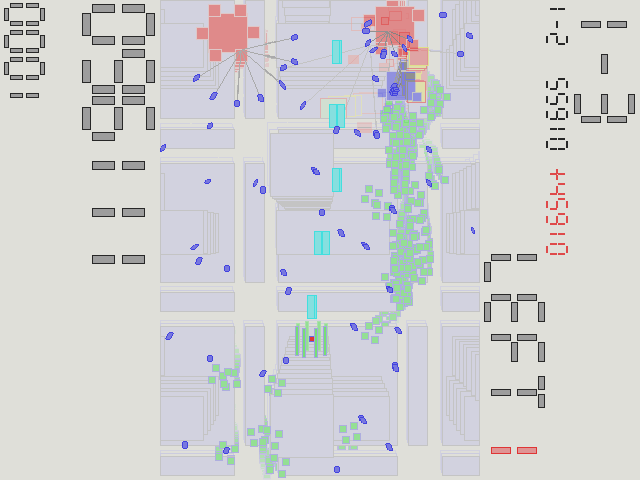 Screenshot of the freeware video game Noiz2sa